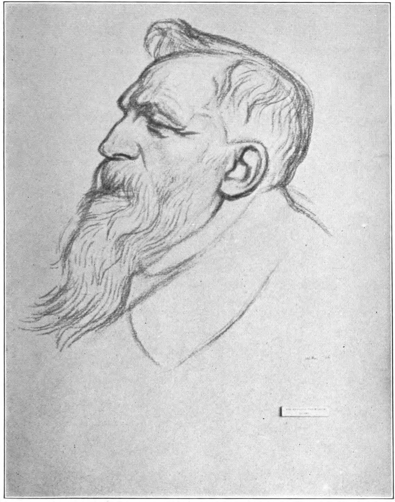 Portrait of Auguste Rodin by William Rothenstein (1872 – 1945)